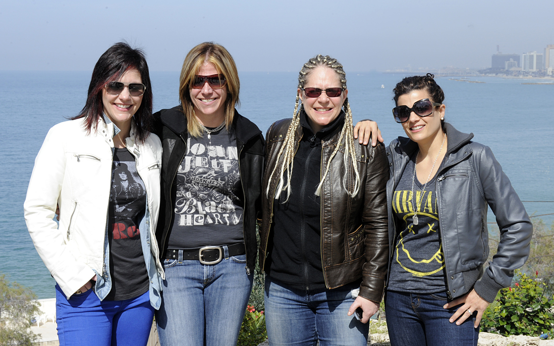 Antigone Rising during a visit to the West Bank, Israel. Left to right: Kristen Henderson, Dena Tauriello, Cathy Henderson, Nini Camps.